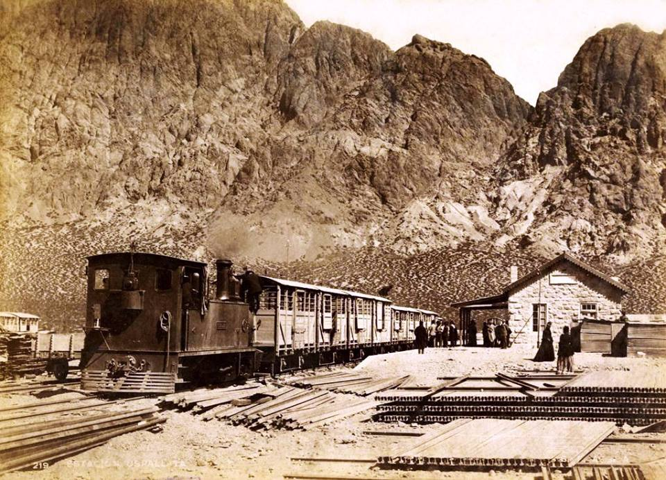 Uspallata train station, part of Transandine Railway.